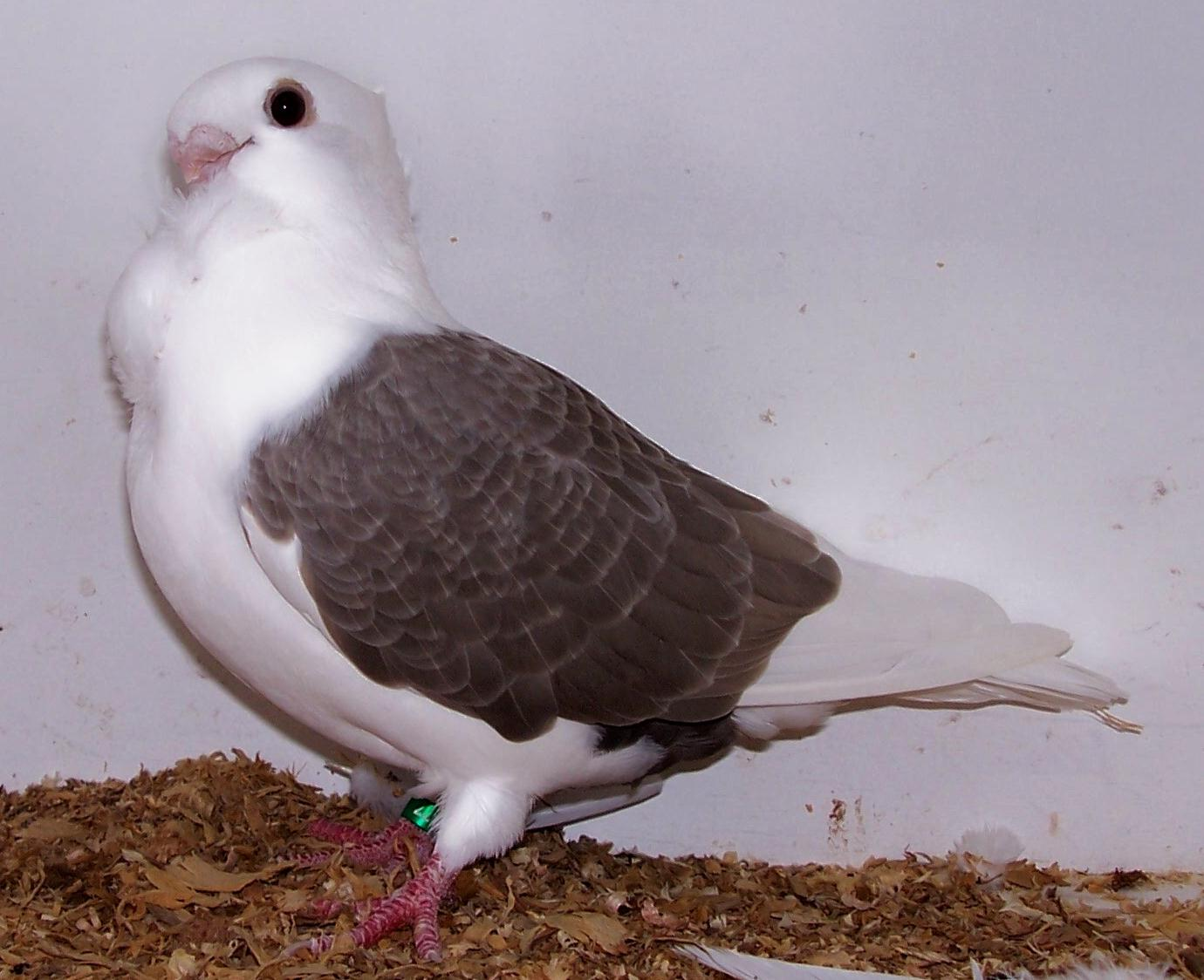 Champion Turbit pigeon at Queensland State Show 2008. This bird is a young hen owned by Werner Zimmer.